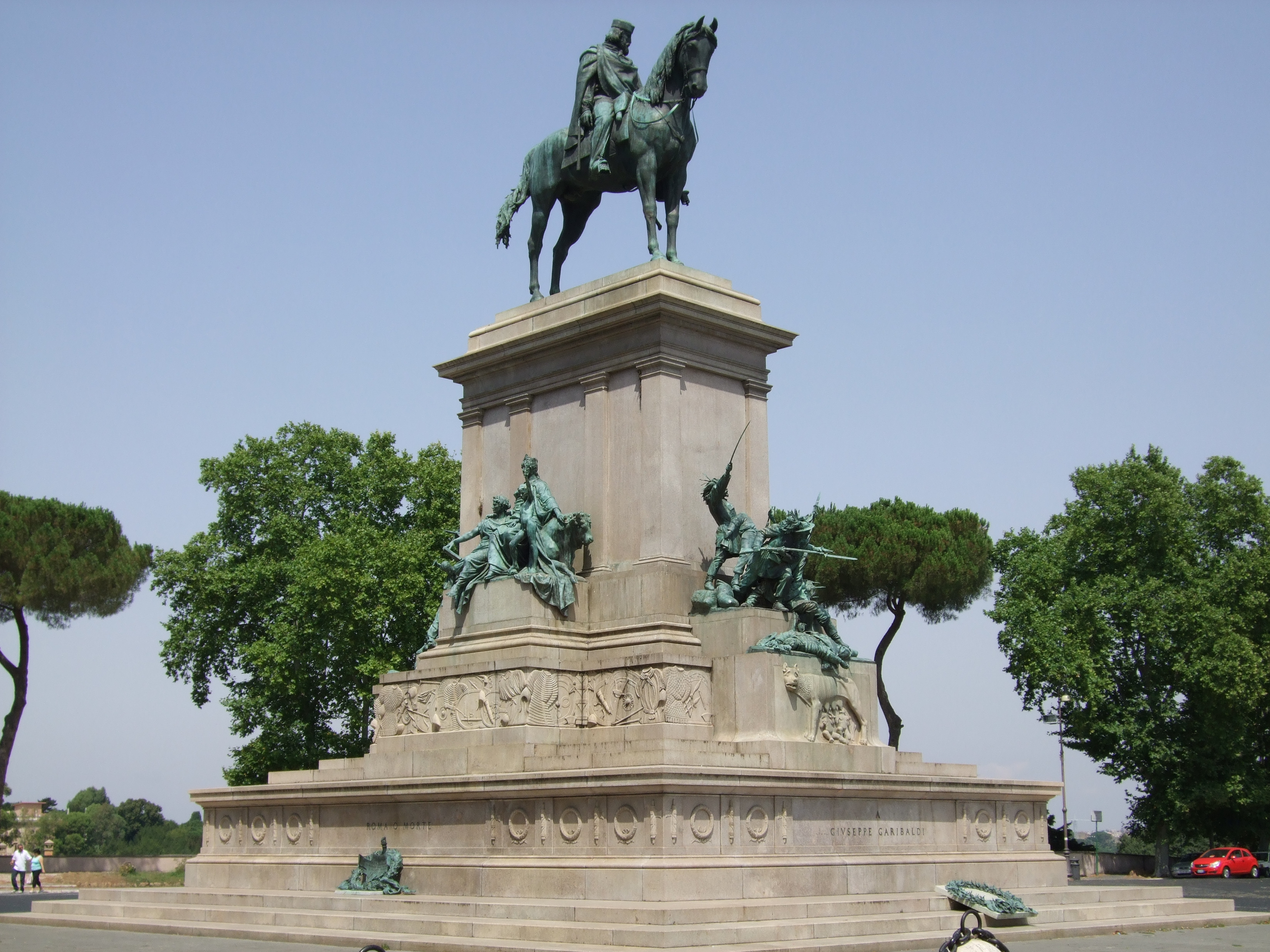 Statue of Giuseppe Garibaldi